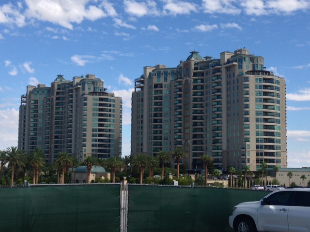 One Queensridge Place high-rise condominium towers in Las Vegas.